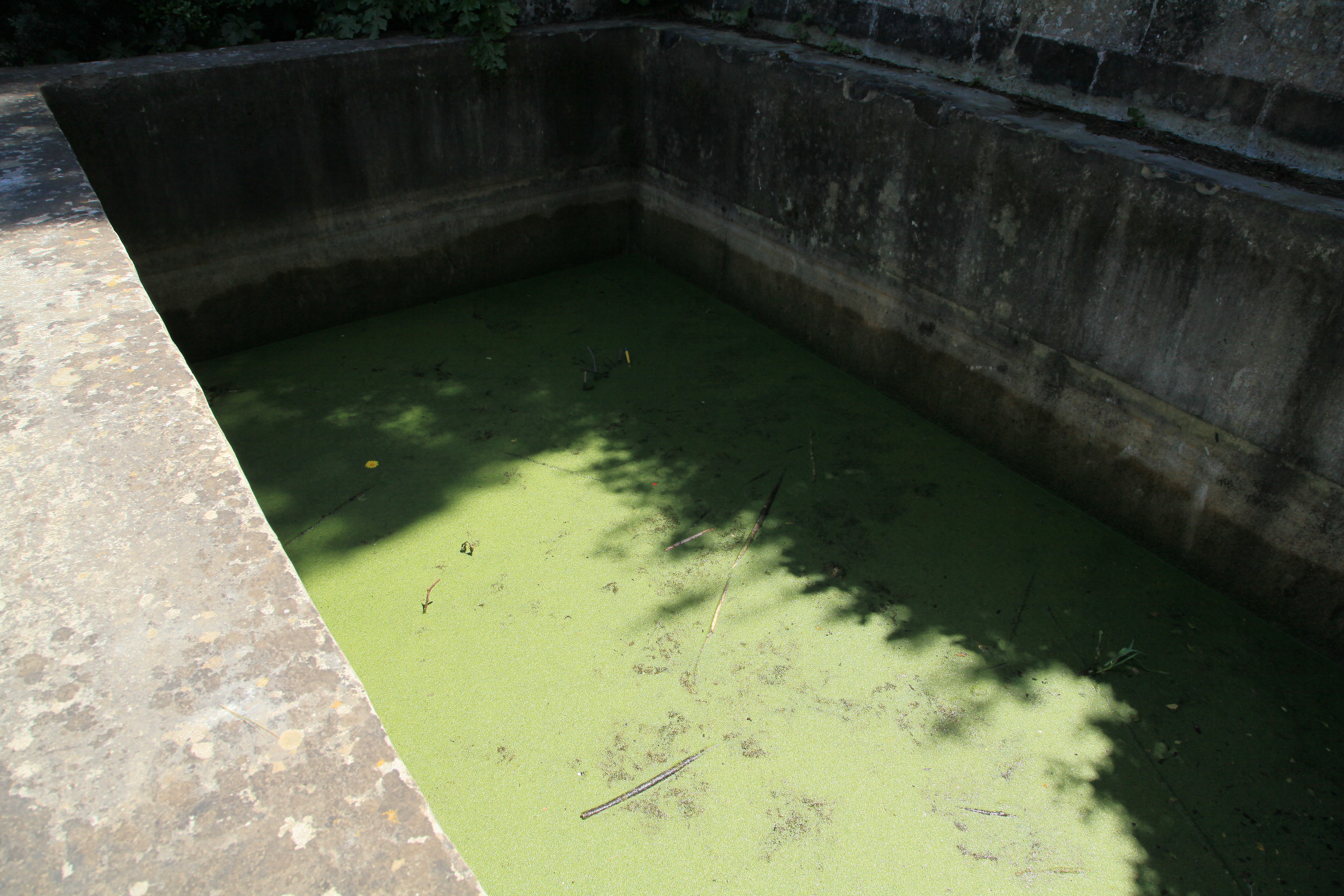 Buskett Gardens, Triq il-Buskett in Siġġiewi, Malta